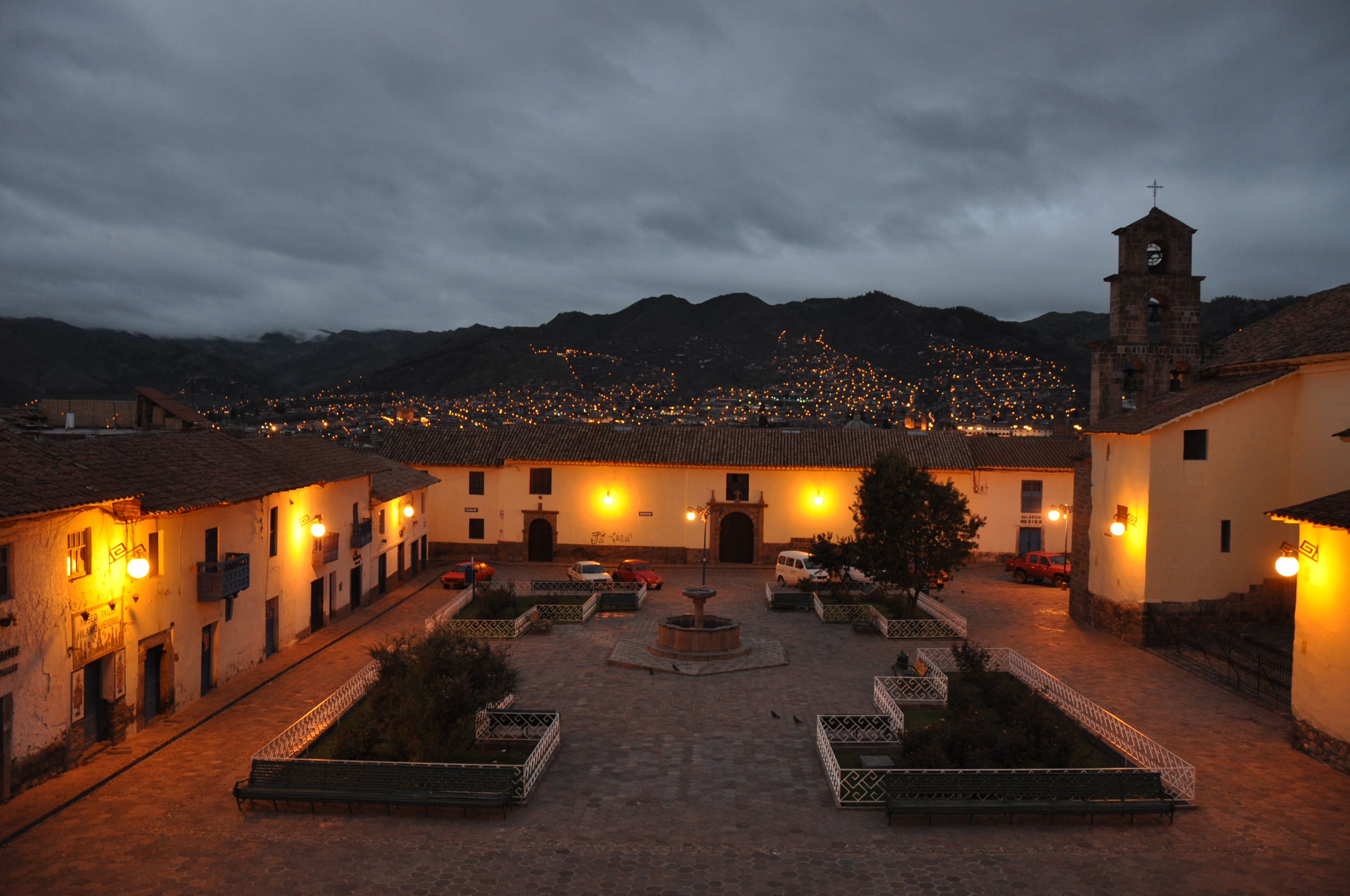 Plaza San Blas at dawn [Cuzco]